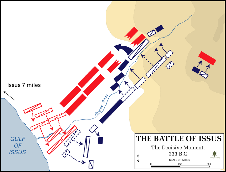 The Battle of Issus, the decisive moment.